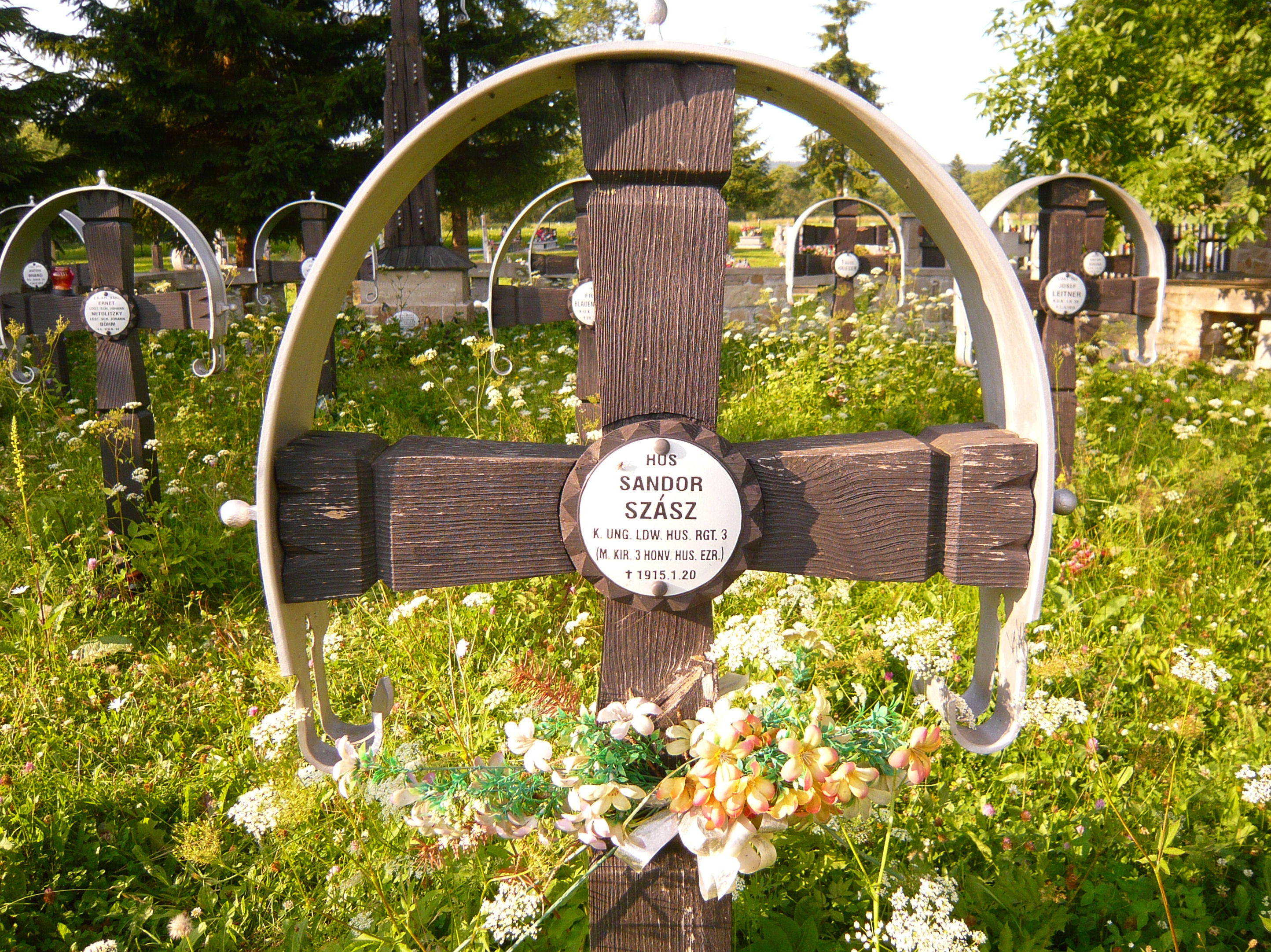 World War I Cemetery nr 56 in Smerekowiec